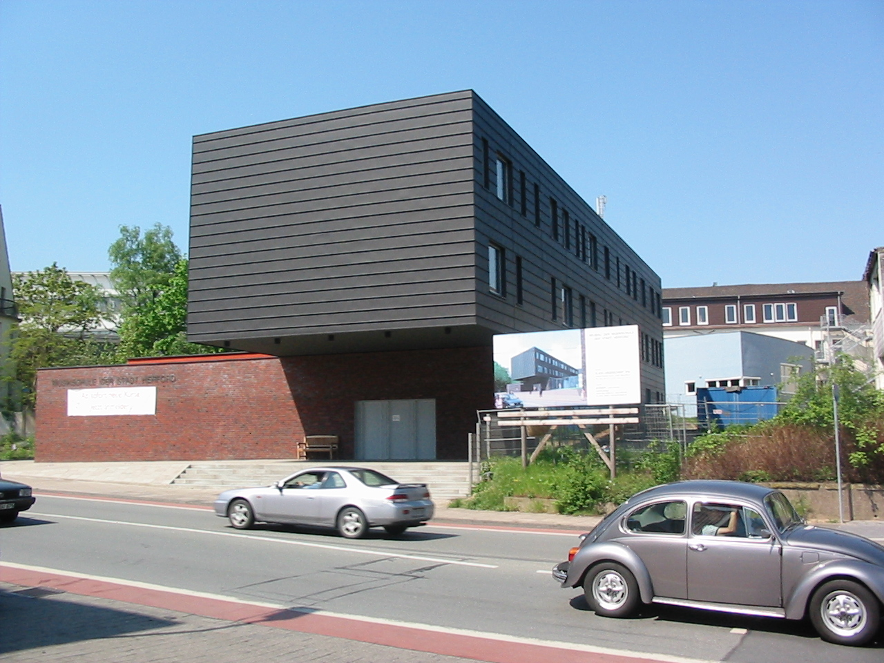 The new school of music (under construction) in town of Herford, District of Herford, North Rhine-Westphalia, Germany.